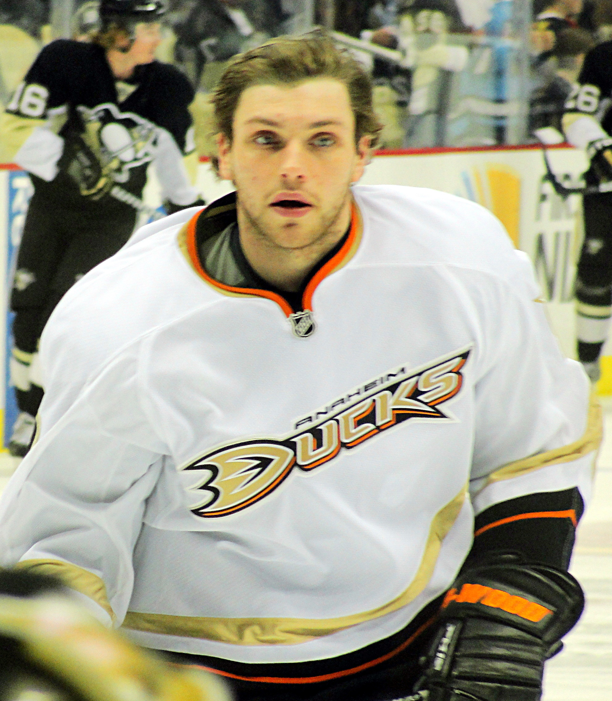 Bobby Ryan of the Anaheim Ducks skates against the Pittsburgh Penguins, February 15, 2012 at Consol Energy Center in Pittsburgh, PA.